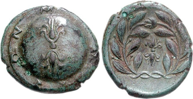 The Molossi, 360-330/25 BC. Æ 19mm (5.67 g, 3h). 12th series. Vertical thunderbolt on shield / Vertical thunderbolt within wreath, ΜΟΛΟΣΣΩΝ (of Molossians).